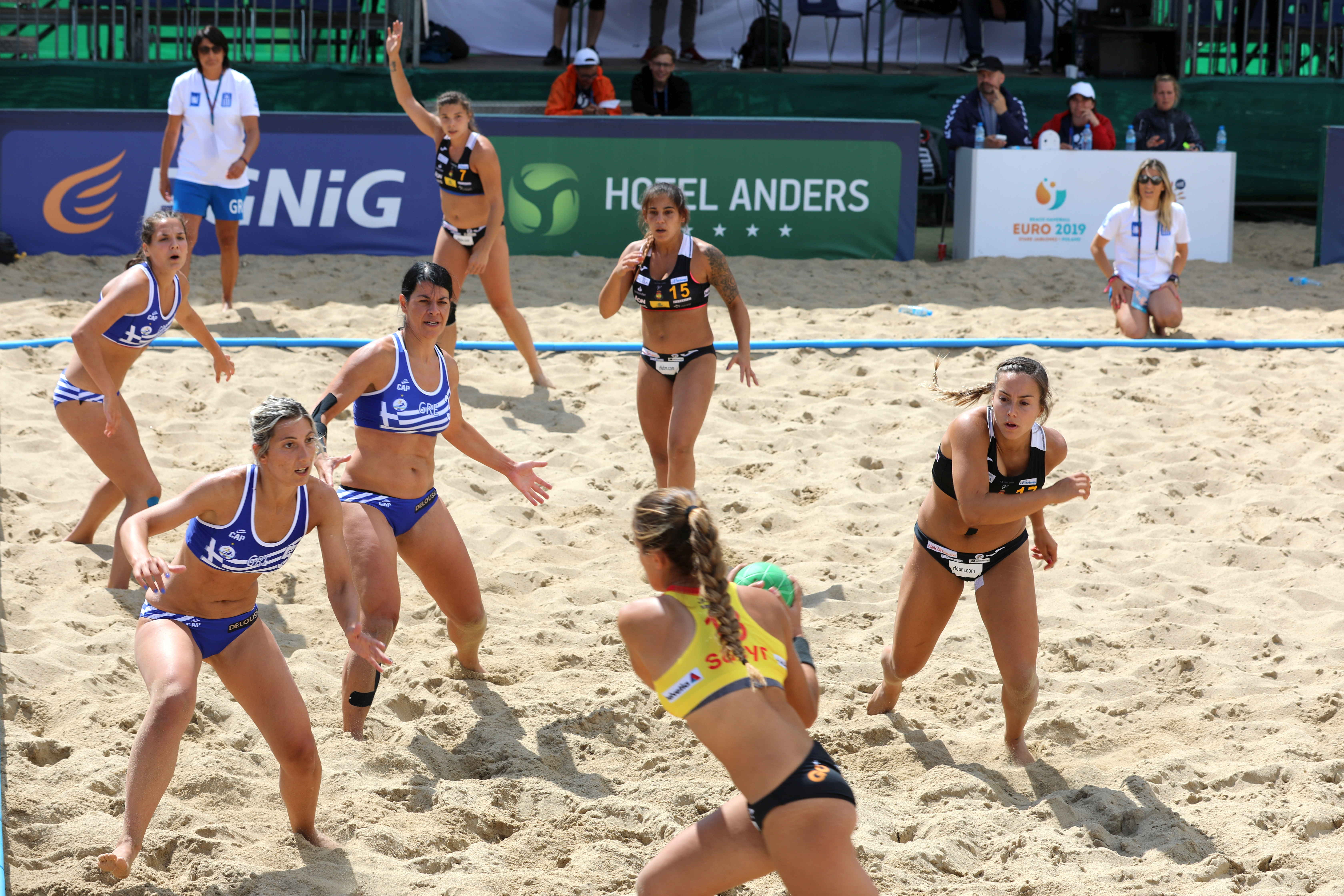 Beach handball Euro; Day 2: 3 July 2019 – Women Preliminary Round Group C – Spain-Greece 2:1 (12:20, 18:16; 8:2)